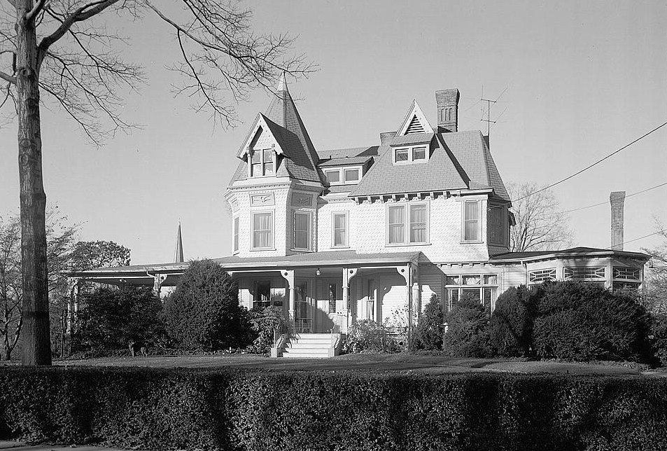 John Hoyt Perry House, 134 Center Street, Southport (Fairfield County, Connecticut) cropped This file comes from the Historic American Buildings Survey (HABS), Historic American Engineering Record (HAER) or Historic American Landscapes Survey (HALS). These are programs of the National Park Service established for the purpose of documenting historic places. Records consist of measured drawings, archival photographs, and written reports. When reusing please credit: Library of Congress, Prints & Photographs Division, CONN,1-SOUPO,35-1 This tag does not indicate the copyright status of the attached work. A normal copyright tag is still required. See Commons:Licensing. This work is in the public domain in the United States because it is a work prepared by an officer or employee of the United States Government as part of that person’s official duties under the terms of Title 17, Chapter 1, Section 105 of the US Code. Note: This only applies to original works of the Federal Government and not to the work of any individual U.S. state, territory, commonwealth, county, municipality, or any other subdivision. This template also does not apply to postage stamp designs published by the United States Postal Service since 1978. (See § 313.6(C)(1) of Compendium of U.S. Copyright Office Practices). It also does not apply to certain US coins; see The US Mint Terms of Use. This file has been identified as being free of known restrictions under copyright law, including all related and neighboring rights.